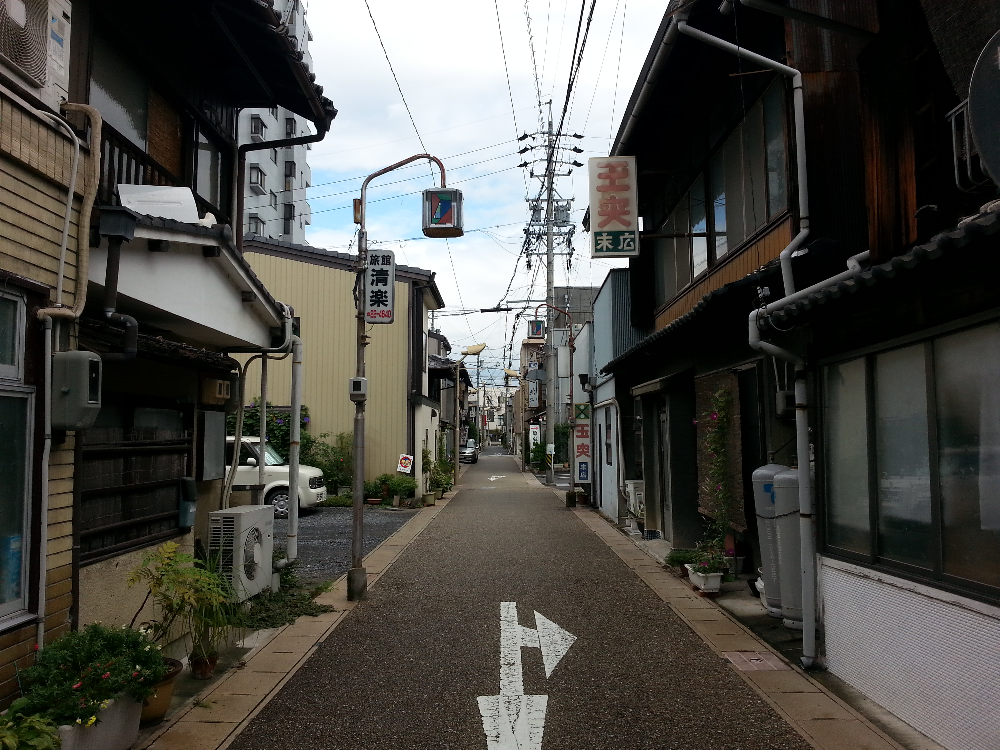 西ヶ原遊郭跡地